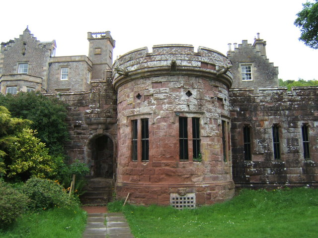 The Game Larder, Abbotsford. This building has unglazed netted windows so that air might flow freely around the game hung on hooks within - see 1317868.